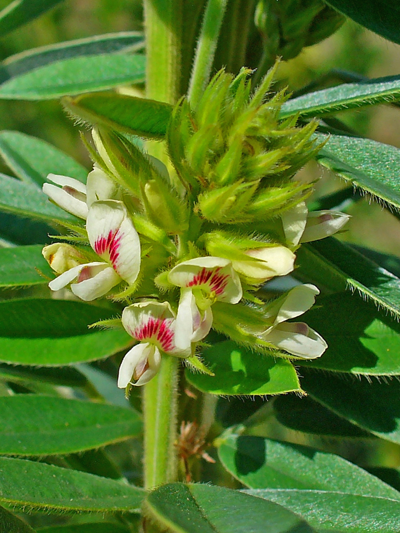 Lespedeza capitata, Fabaceae, Round-head Bush-clover, inflorescence. The fresh, aerial parts of blooming plants are used in homeopathy as remedy: Lespedeza capitata (Lesp-c.)